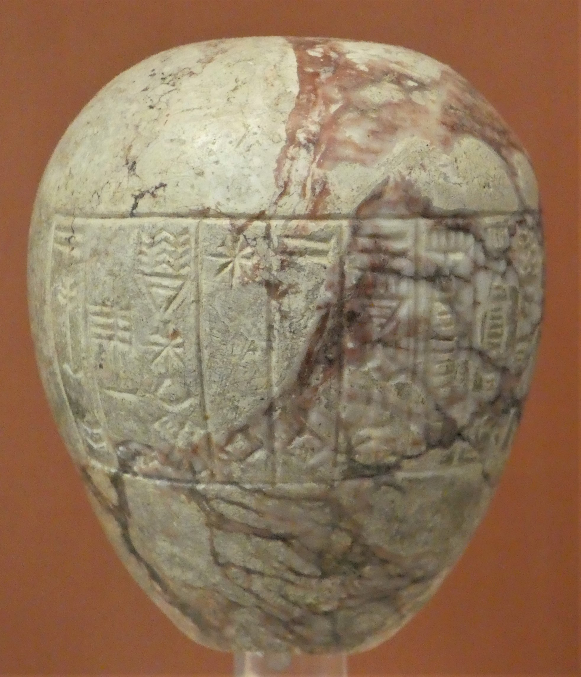 Marnle macehead, with a votive inscription of Shar-kali-sharri (2218-2193 BC), king of Akkad, dedicating it to the god Shamash in his temple at Sippar. BM 91146 RIME 2 pp. 196-197, translation by Douglas Frayne: "Sar-kali-sarri, king of Agade, for the god Samas at Sippar, dedicated (this mace).".